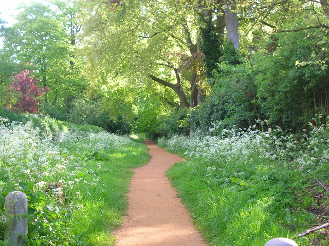 Cuckoo Lane, Headington Hill, Oxford. Just over a mile from the centre of Oxford, this old pathway links the city with one of Oxford's 'villages', namely Old Headington. It now also forms the divide between the two private girls schools of Oxford, Headington Girls School and Rye St Antony.